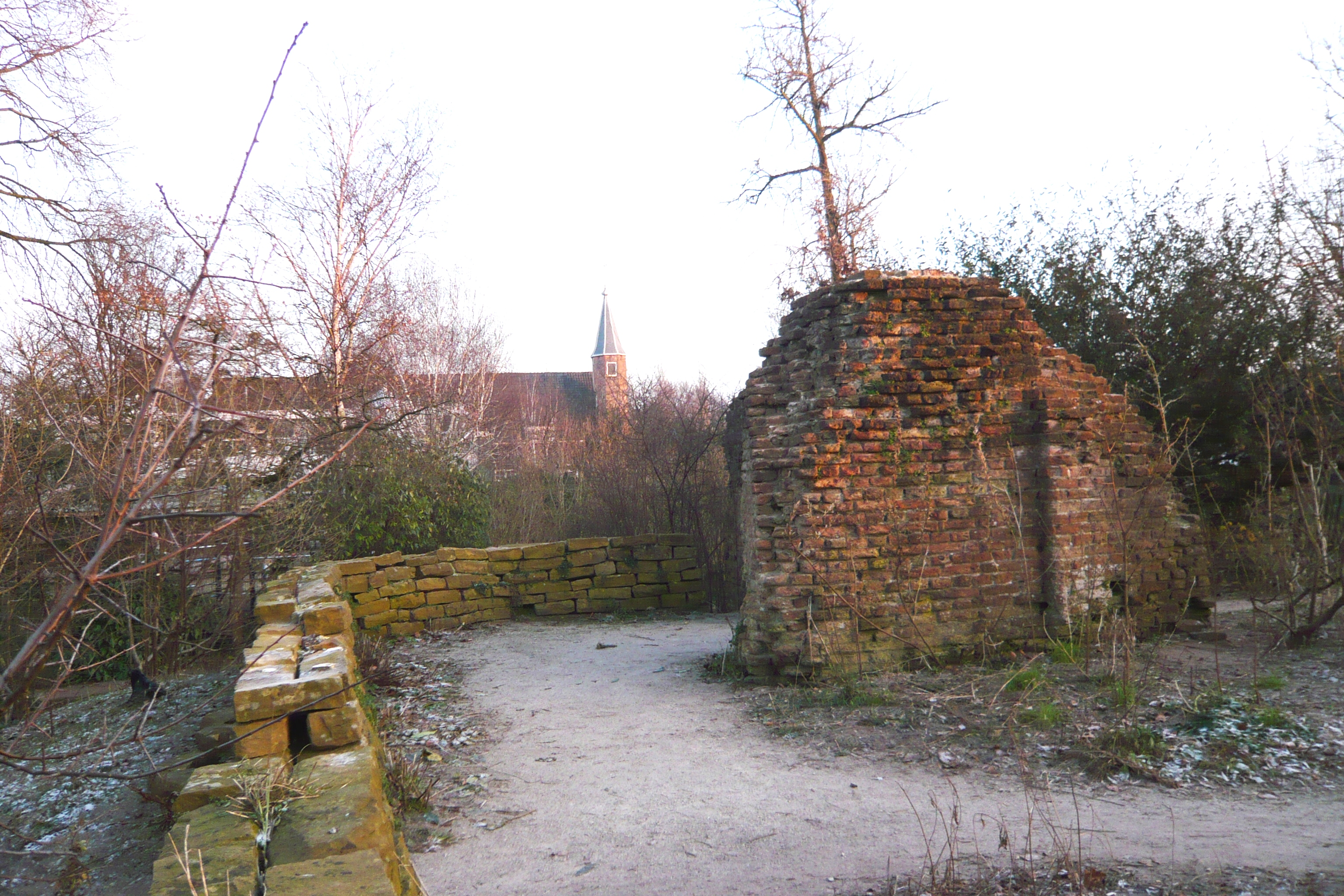 Huis ter Kleef, Haarlem, the Netherlands. In the background the building with the tower is called the Kaatsbaan. This is all that remains of the castle called Cleves House, which was destroyed during the siege of Haarlem in 1573.